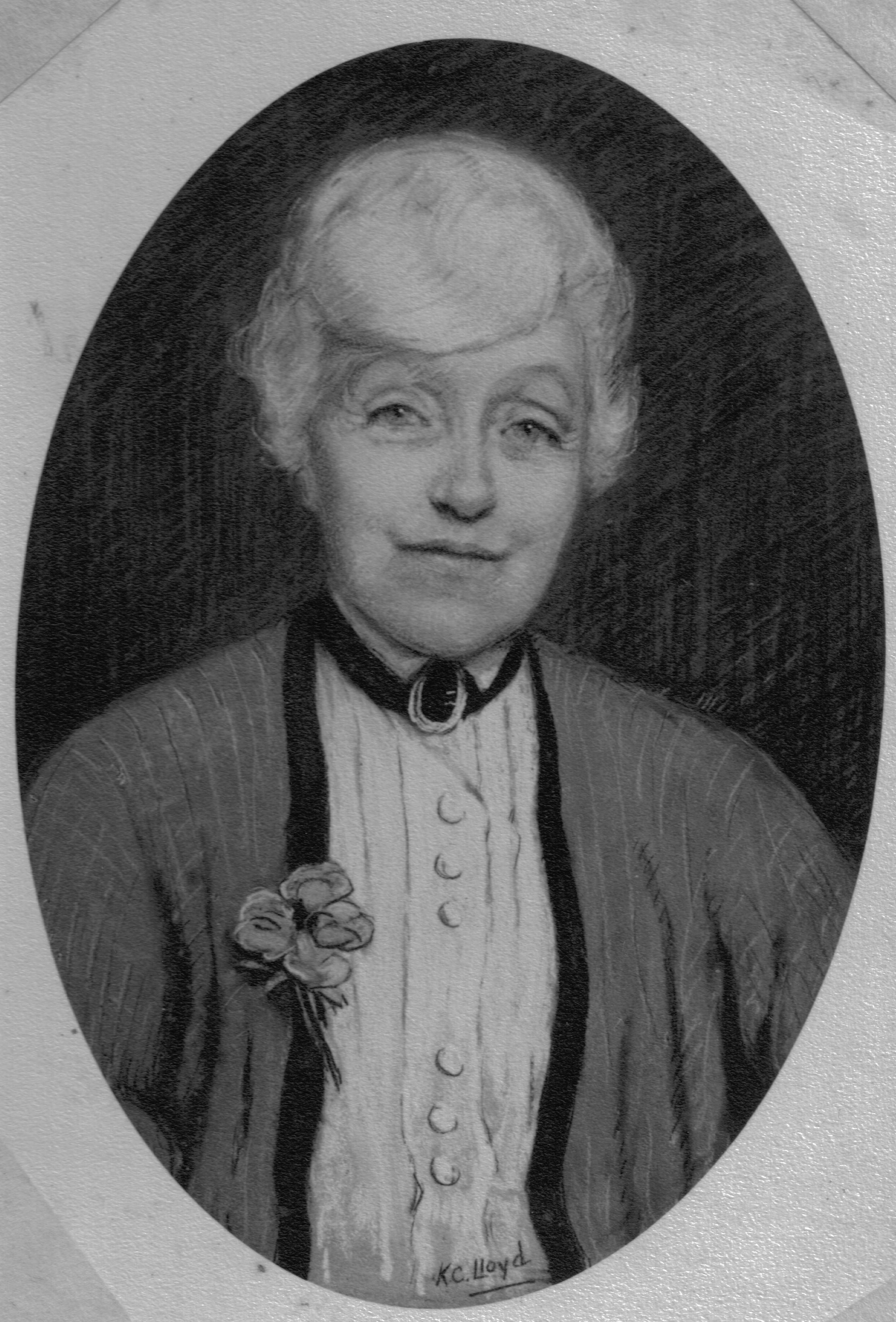 Evelyn Katrine Gwenfra Williams, wife of the 3rd Duke of Wellington